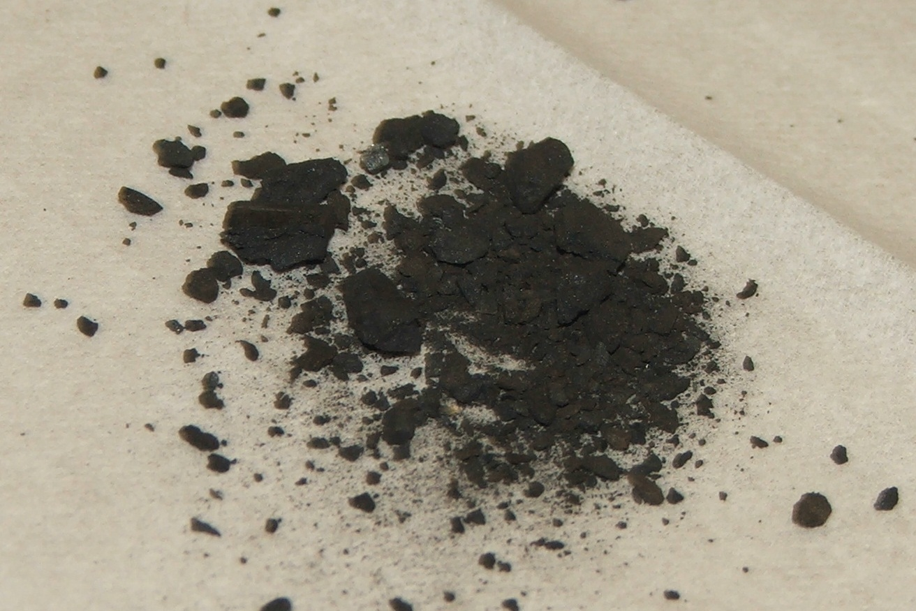 Manganese dioxide